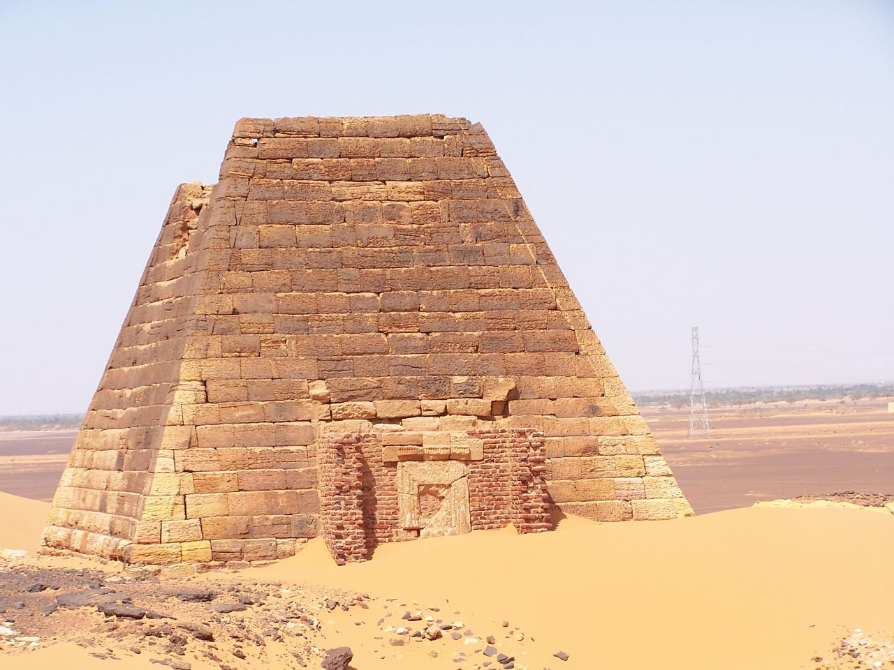 Pyramids of Meroe in Sudan. You see pyramide N14.